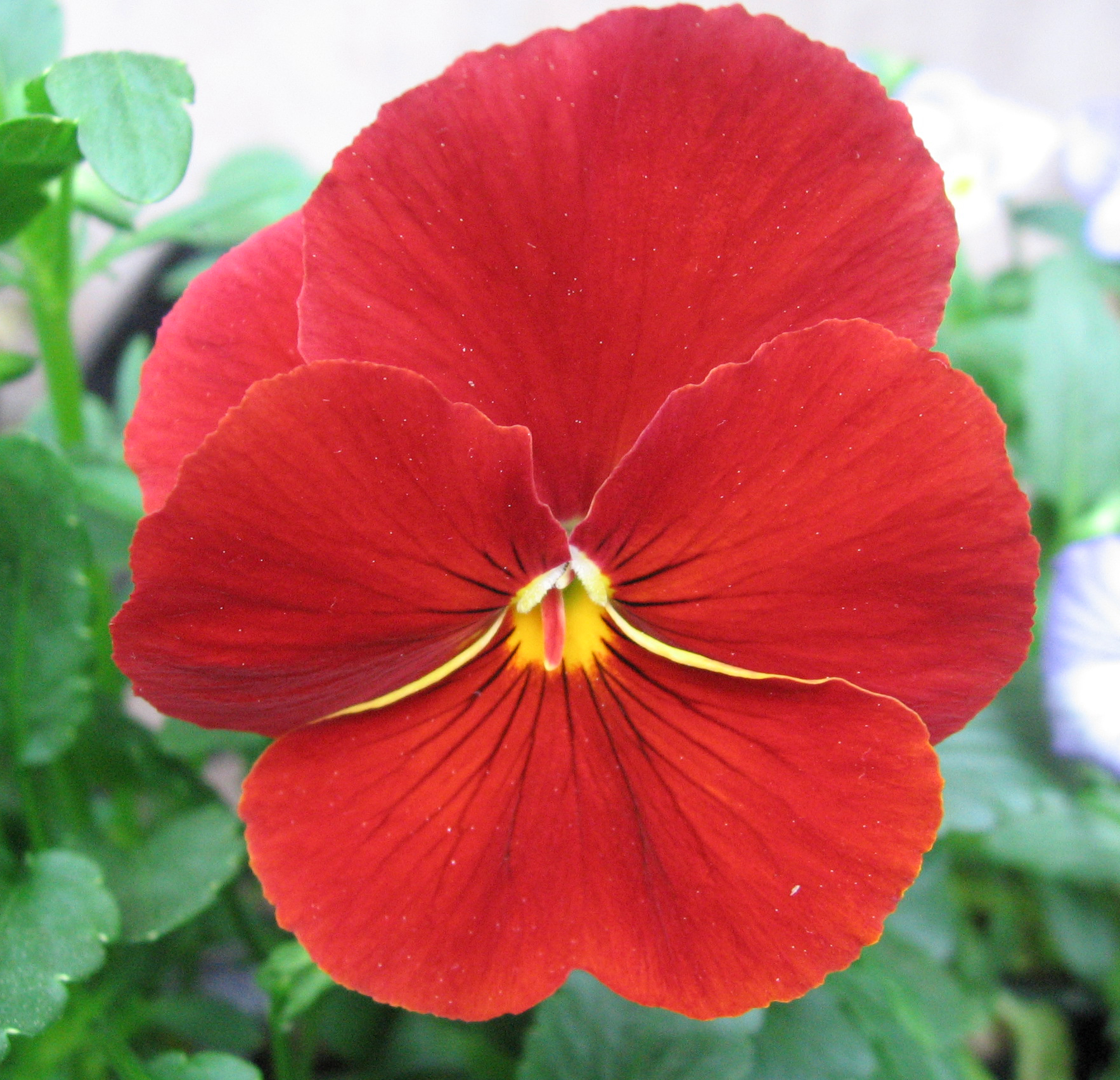 A red Pansy cultivar. Image by Pharaoh Hound.